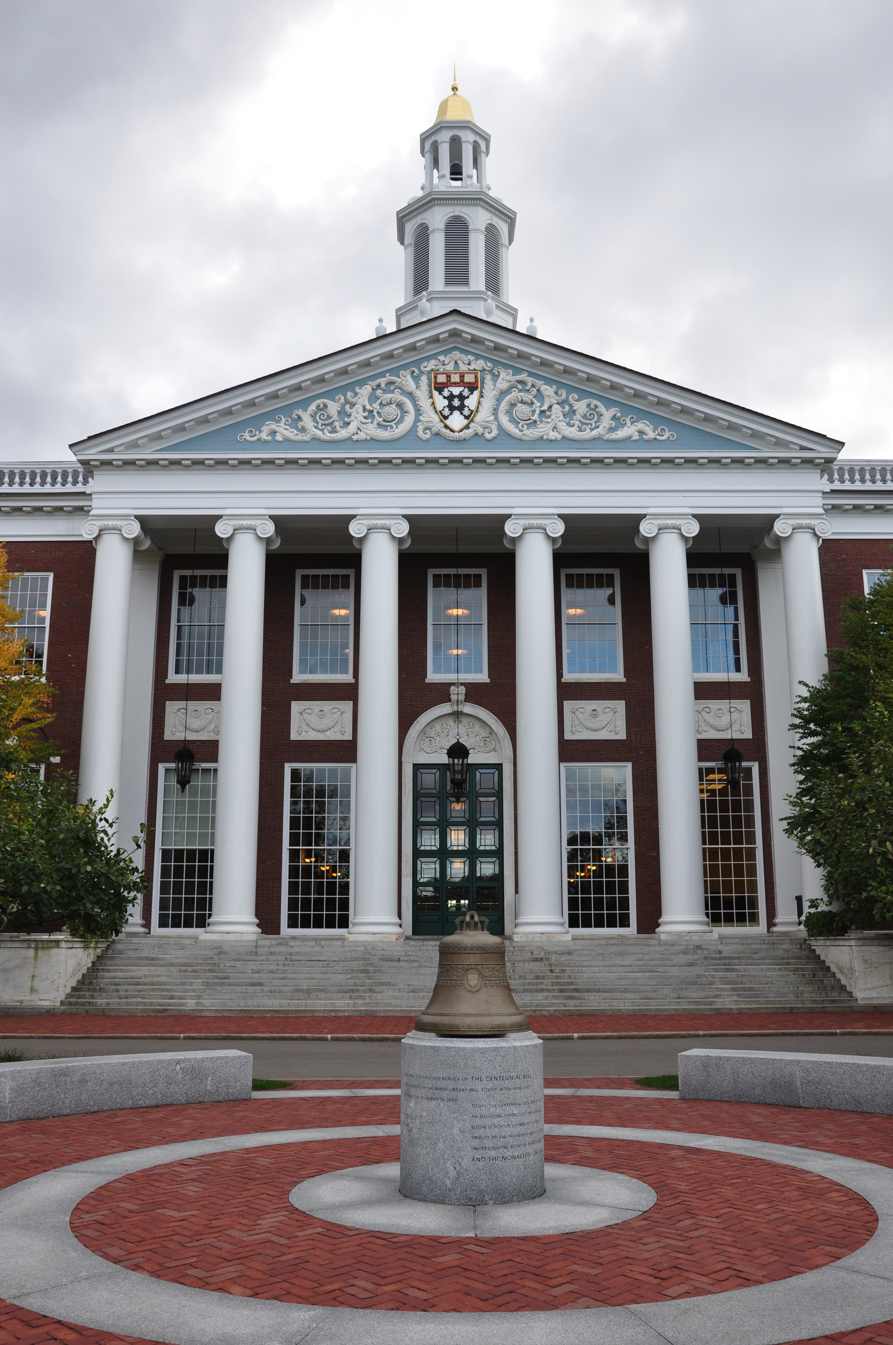 Harvard Business School Baker Library 2009